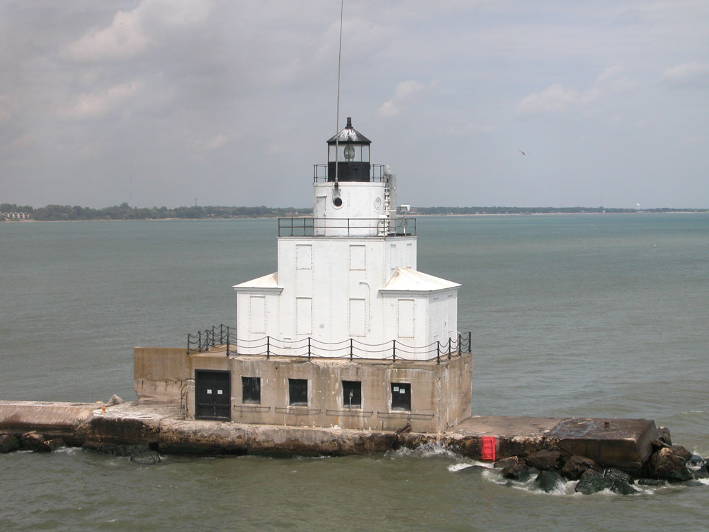 I took this picture